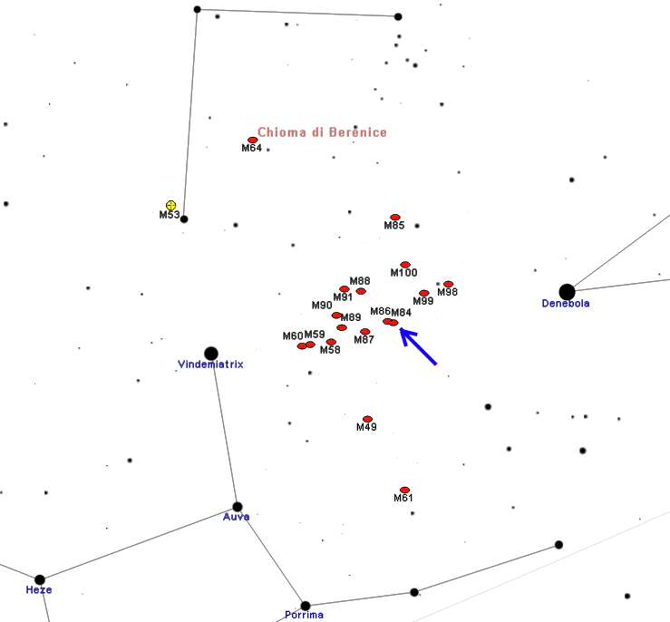 Map of M84